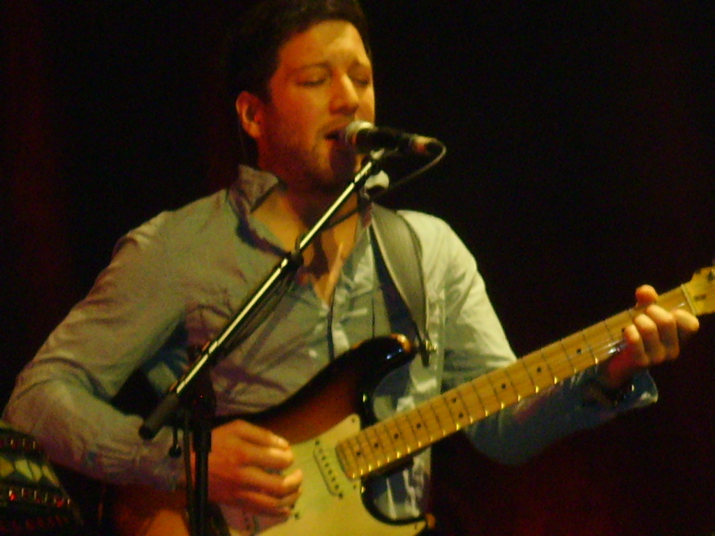 Matt Cardle on tour in Belfast 2012